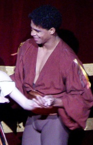 Carlos Acosta in a Red Run curtain call after dancing George Balanchine's Tzigane. Taken at the Royal Opera House, Covent Garden on 04/03/08